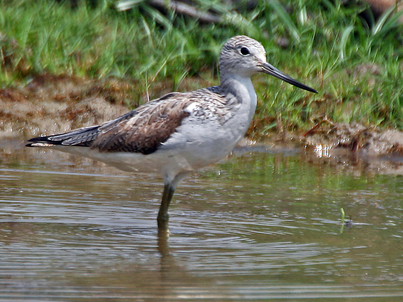 Common Greenshank ((Tringa nebularia)) at Keoladeo National Park, Bharatpur, Rajasthan, India.